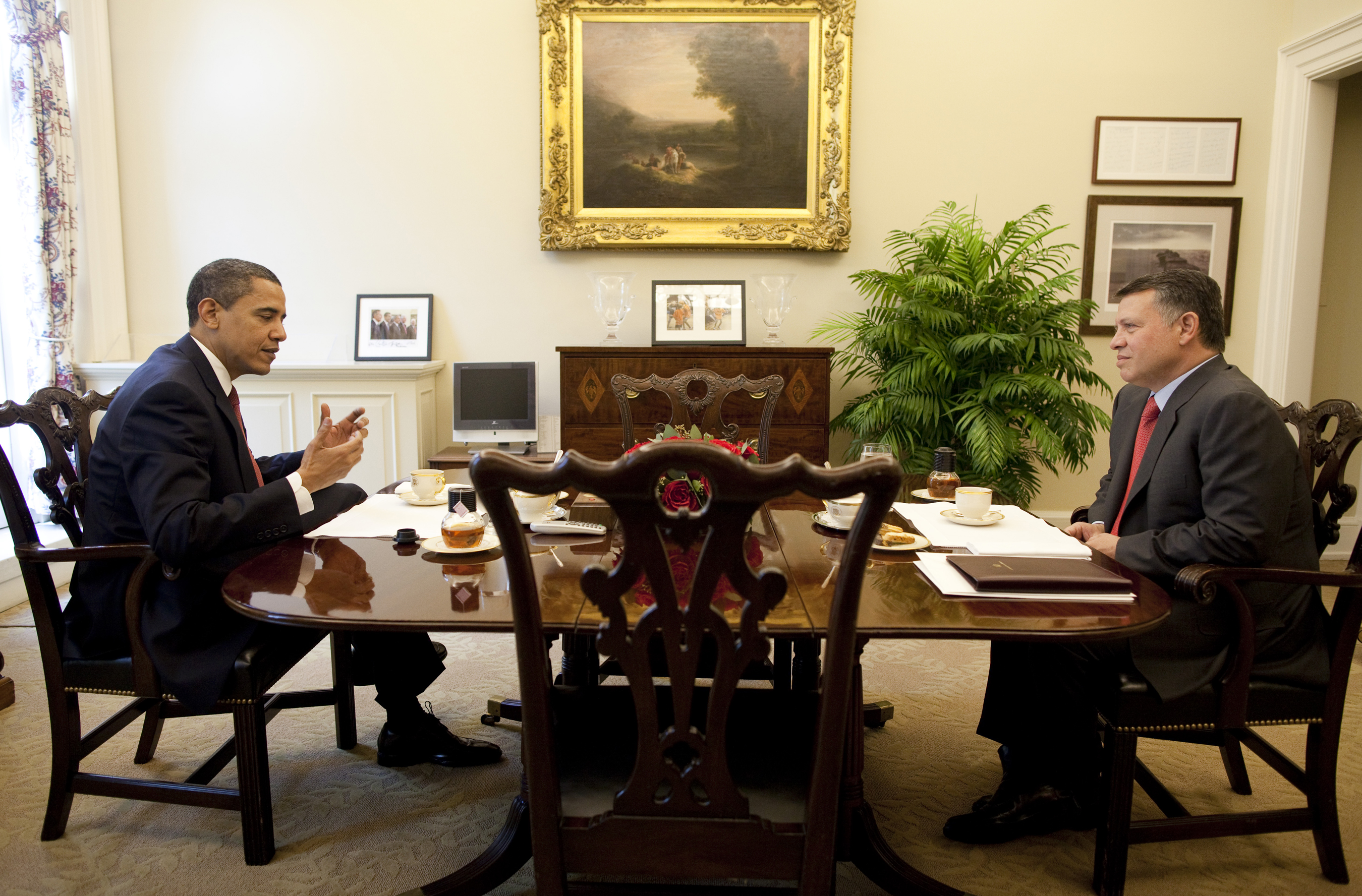 President Barack Obama is seen having tea with King Abdullah of Jordan in a one-on-one meeting Tuesday, April 21, 2009, at the Oval Office Private Dining Room in the West Wing of the White House.